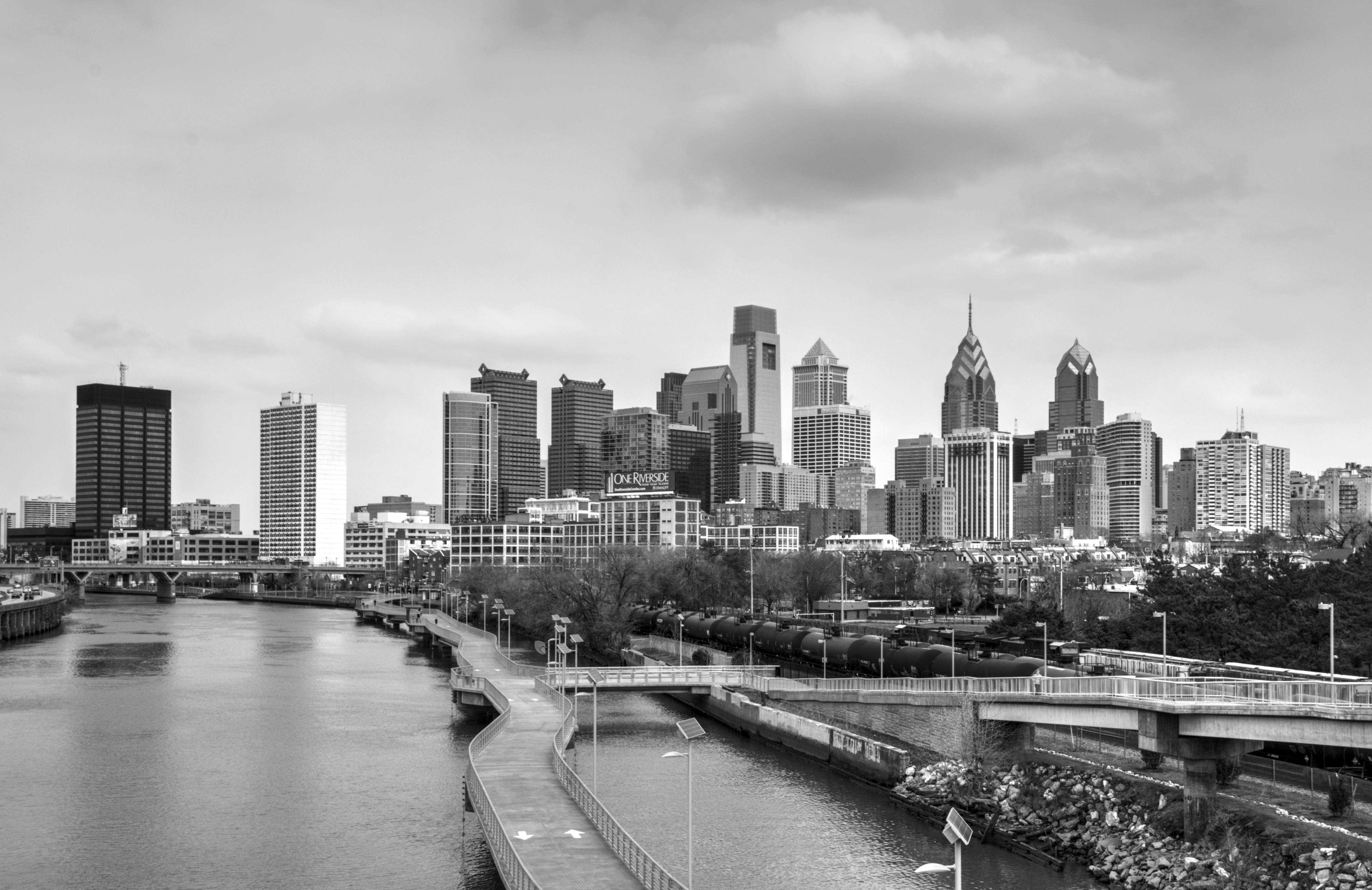 Philadelphia cityscape on an overcast day, in black and white, taken from the South Street Bridge